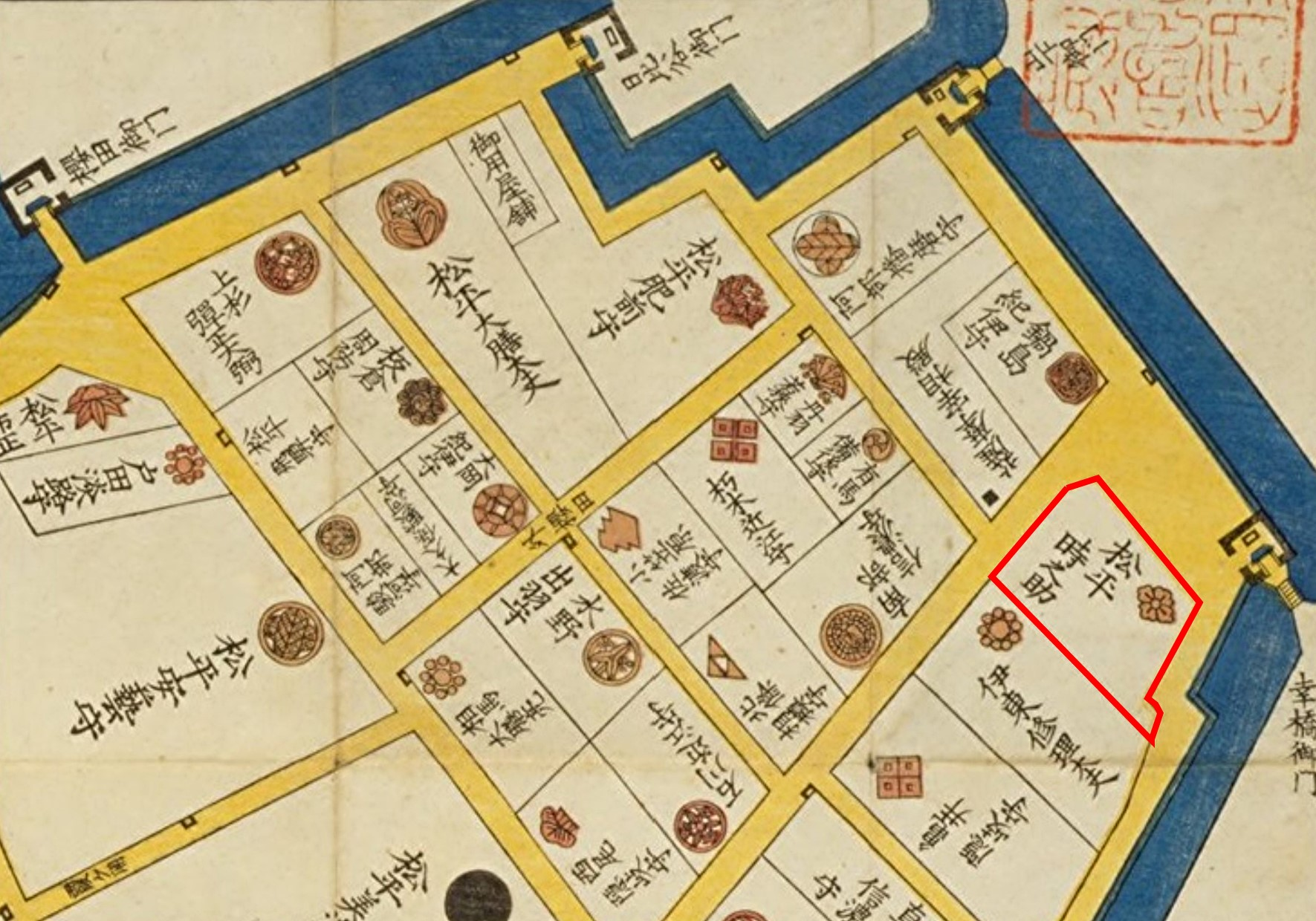 Residence of Yanagisawa clan at Edo